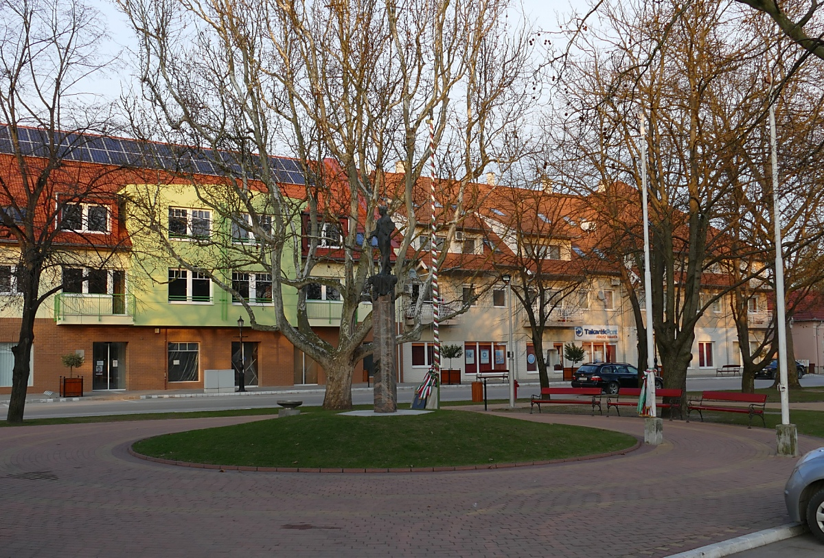 Monument of 1956 revolution in Tiszakécske, Hungary